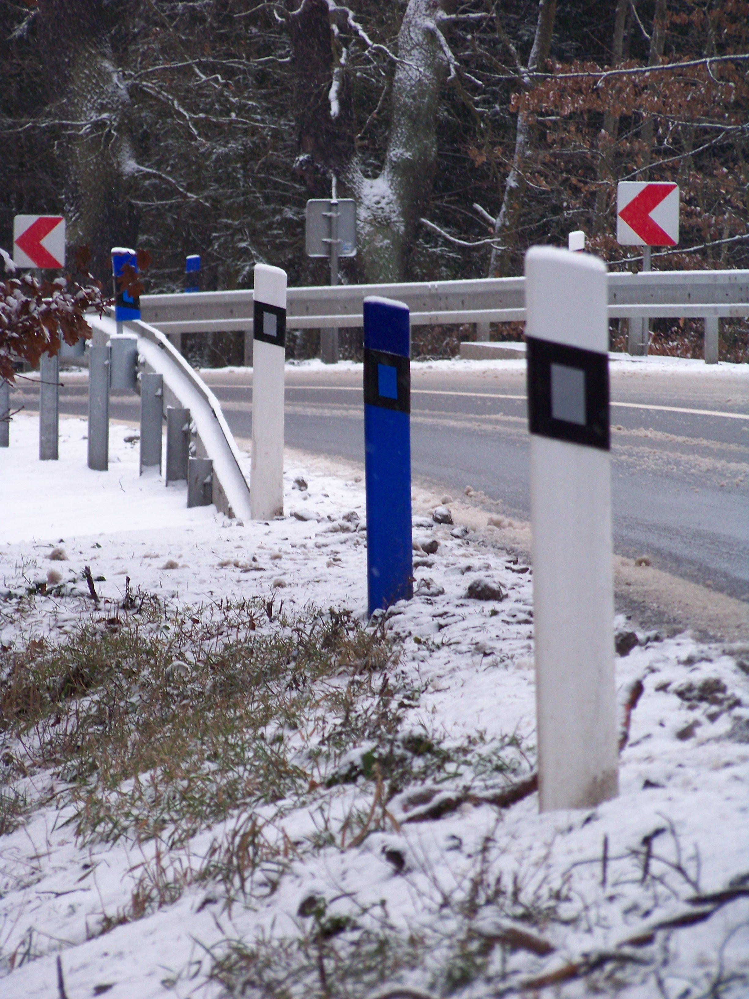 Řevničov and Ruda, Rakovník District, Central Bohemian Region, the Czech Republic. The road No II/237.